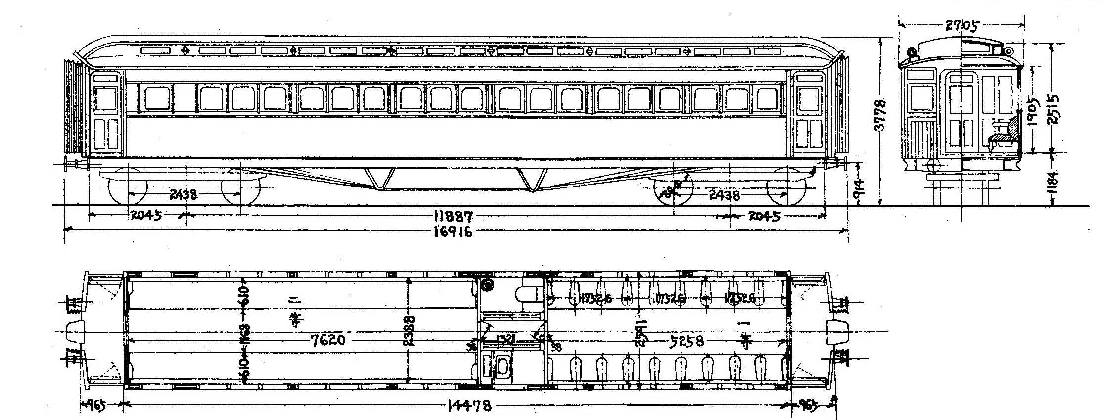 Type drawing of JGR's Hoiro5150 type passenger car (Gubusha No.120)